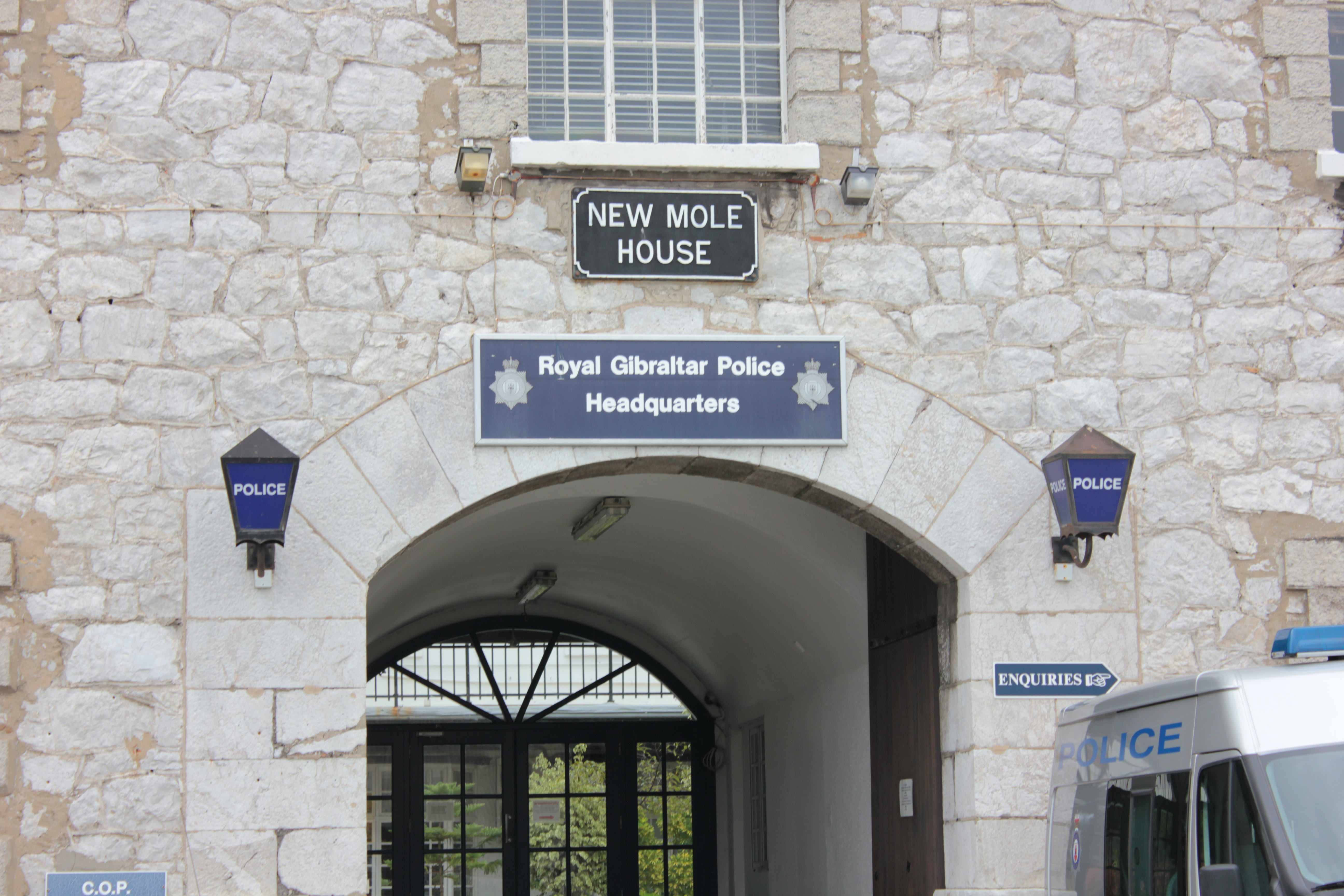 Headquarters of the Royal Gibraltar Police